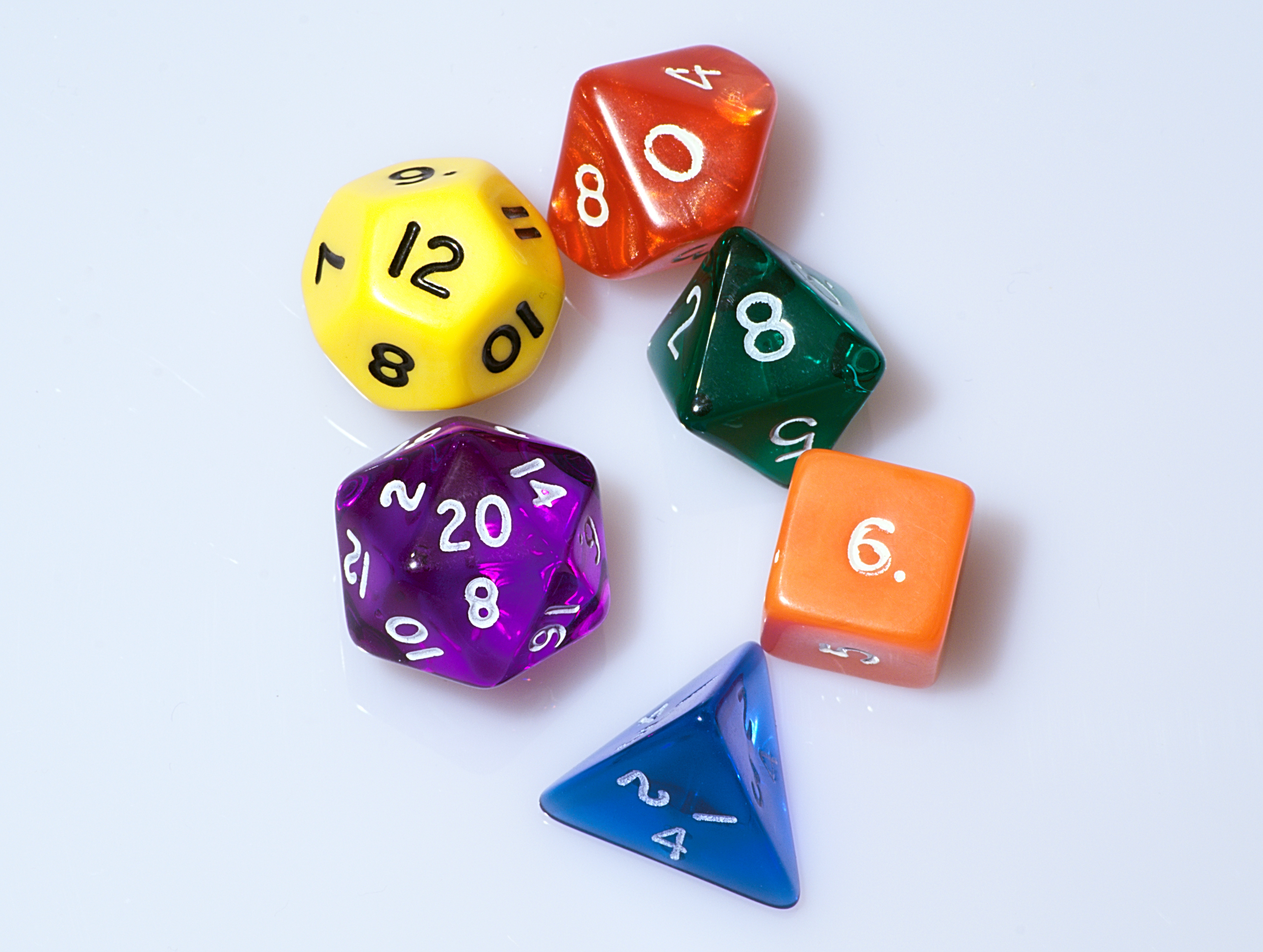 Six dice of various colours. 4-sided die, 6-sided die, 8-sided die, 10-sided die, 12-sided die and 20-sided die